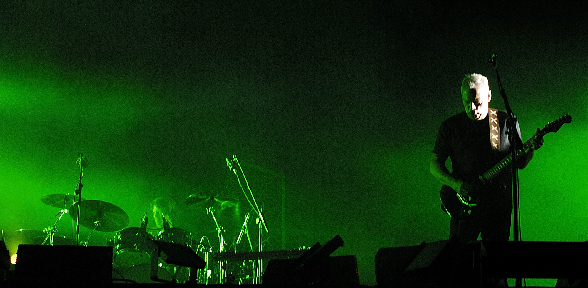 David Gilmour in concert in Munich, Germany : Gilmour, "High Hopes"